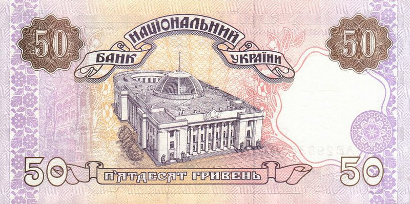 50 Hryvnia banknote (Ukraine), 1996, back